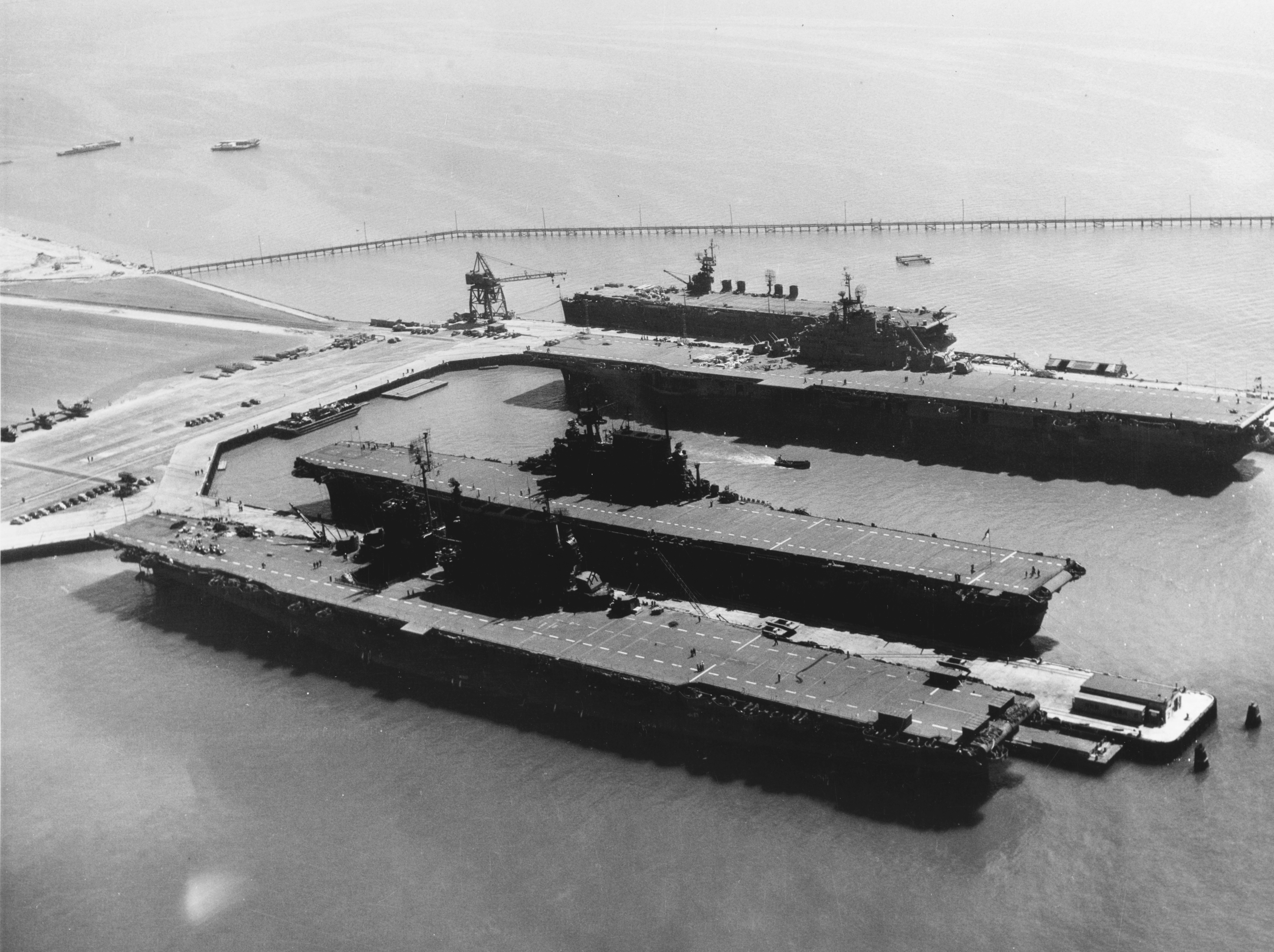 Four U.S. Navy aircraft carriers representing four separate classes (Lexington, Yorktown, Essex, Independence) docked at the Naval Air Station Alameda, California (USA), circa mid-September 1945. The ships are (from front to back): USS Saratoga (CV-3); USS Enterprise (CV-6); USS Hornet (CV-12) and USS San Jacinto (CVL-30). Note the Consolidated PBY Catalina amphibians parked at the far left.